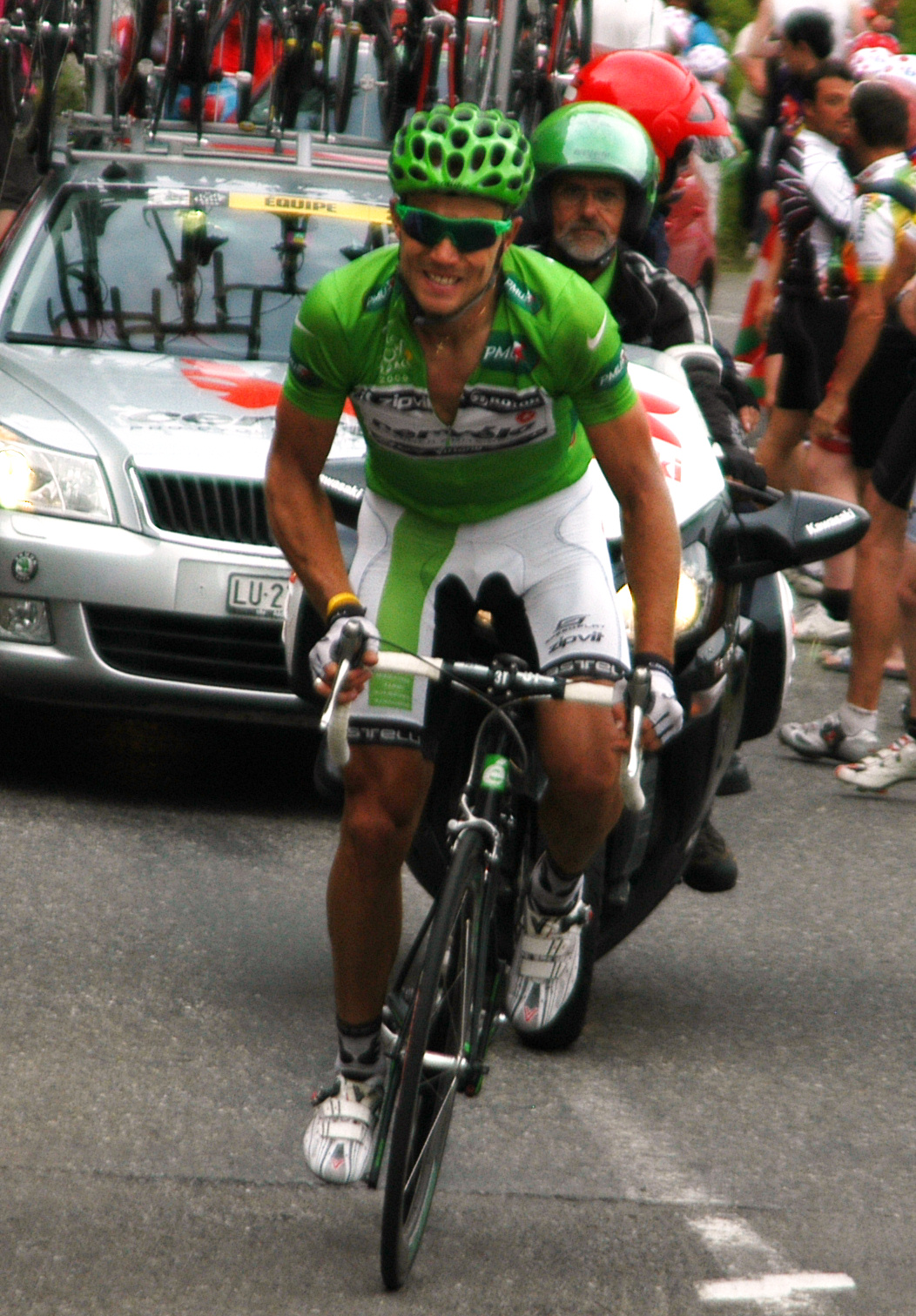 Thor Hushovd (NOR) at stage 17 of the 2009 Tour de France on the Col de la Colombière.